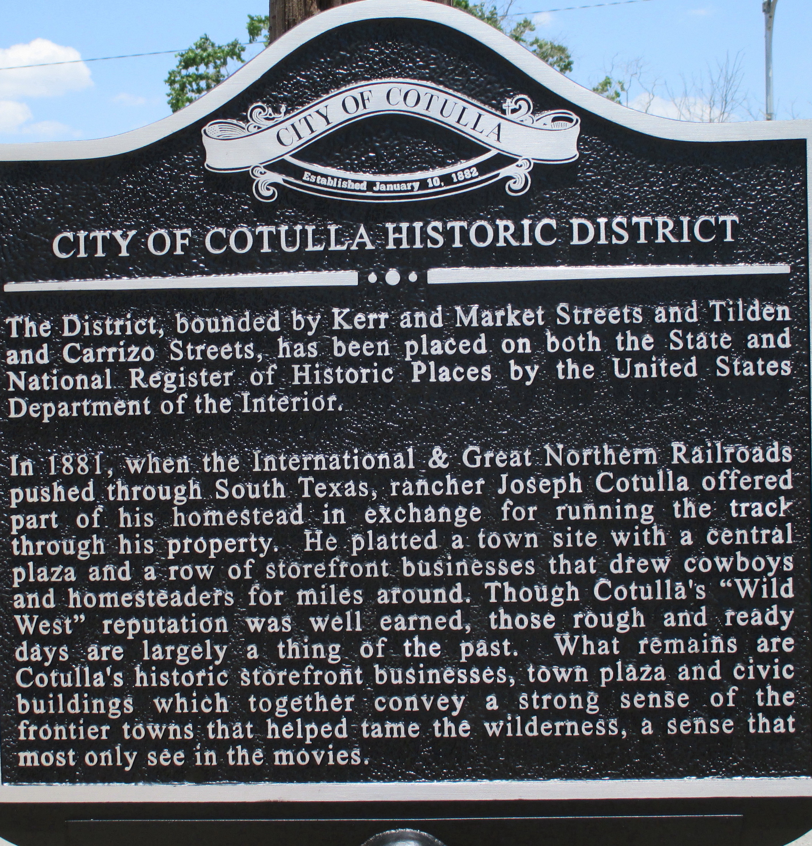 I took photo in Cotulla, TX, with Canon camera of the historic district sign, recently erected.